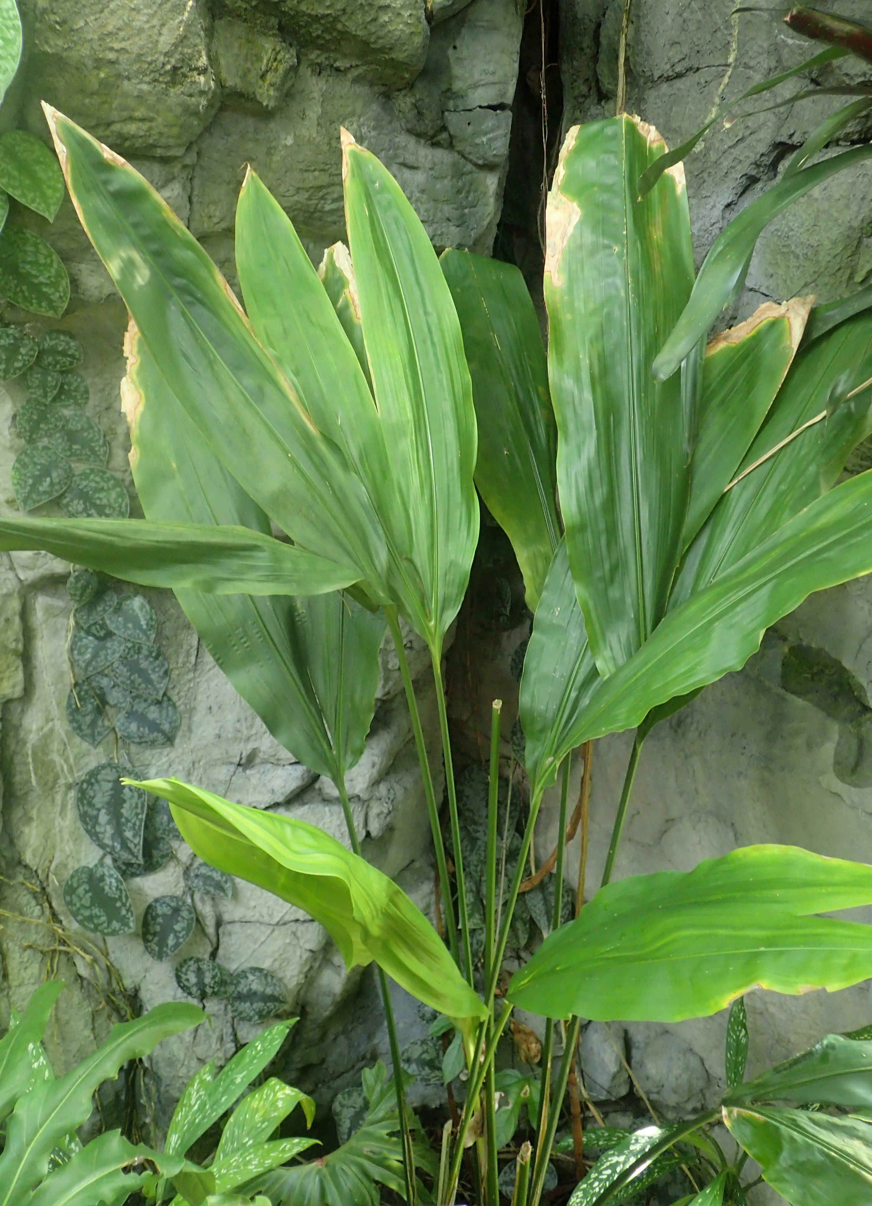 Cyclanthus bipartitus in the Missouri Botanical Garden, St. Louis